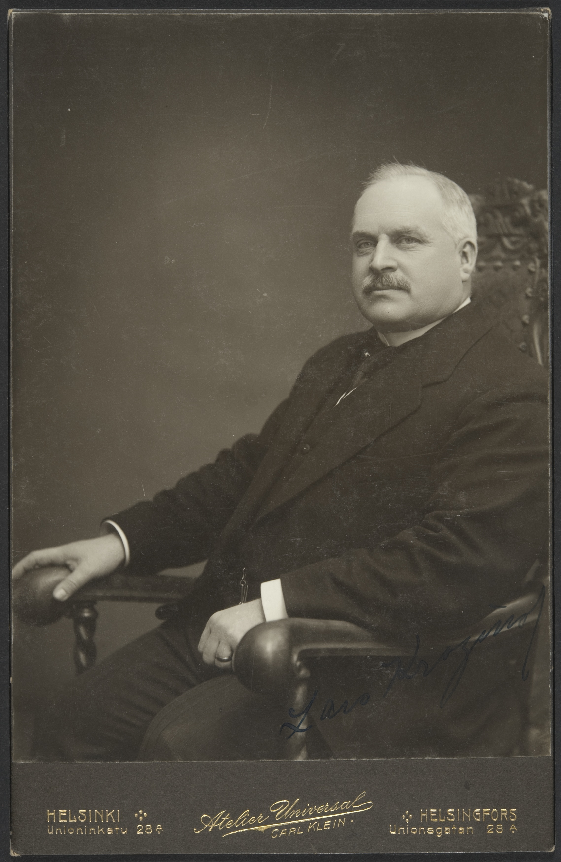 Photograph of the Finnish shipowner Lars Krogius (1860–1935).